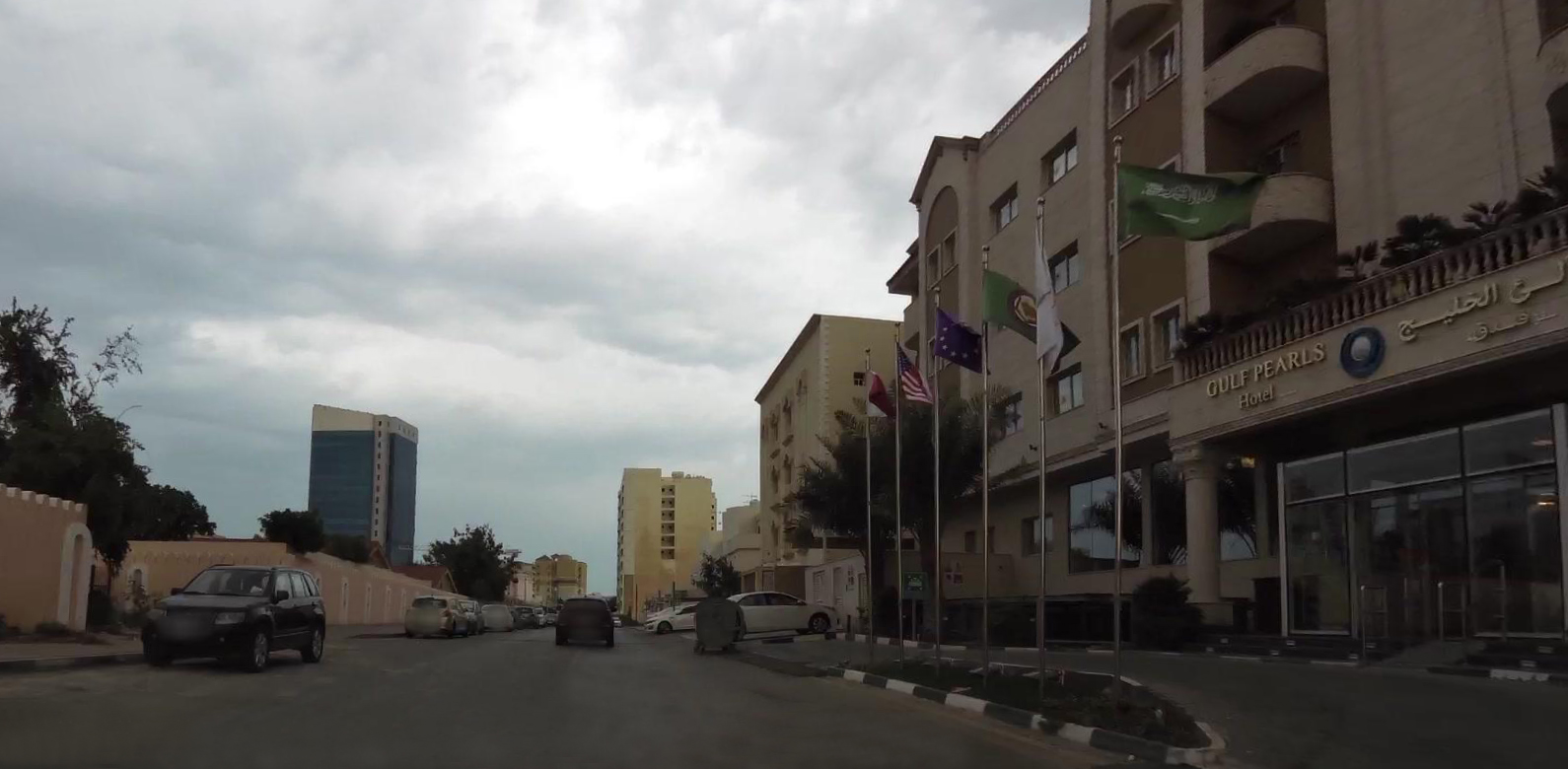 Al Dhiyaa Street in New Al Mirqab district of Doha, Qatar. The Gulf Pearls Hotel can be seen on the left.